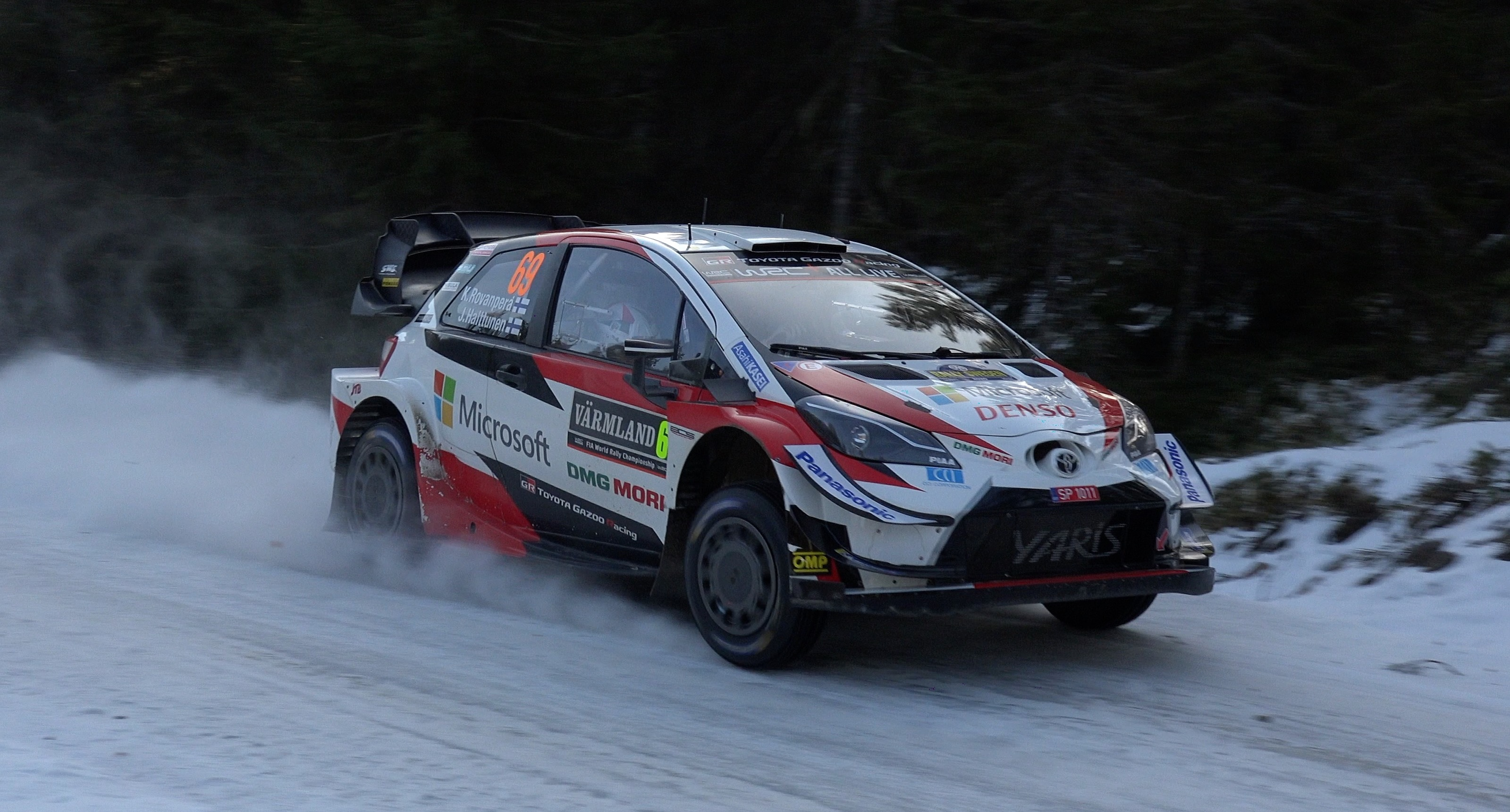 Kalle Rovanperä during Rally Sweden 2020.